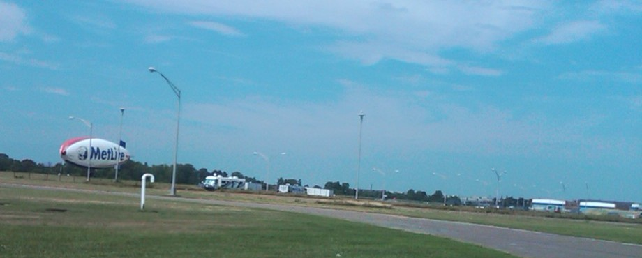 The Metlife blimp on the south field at Sikorsky Memorial Airport in Stratford, Connecticut, 25 July 2011.